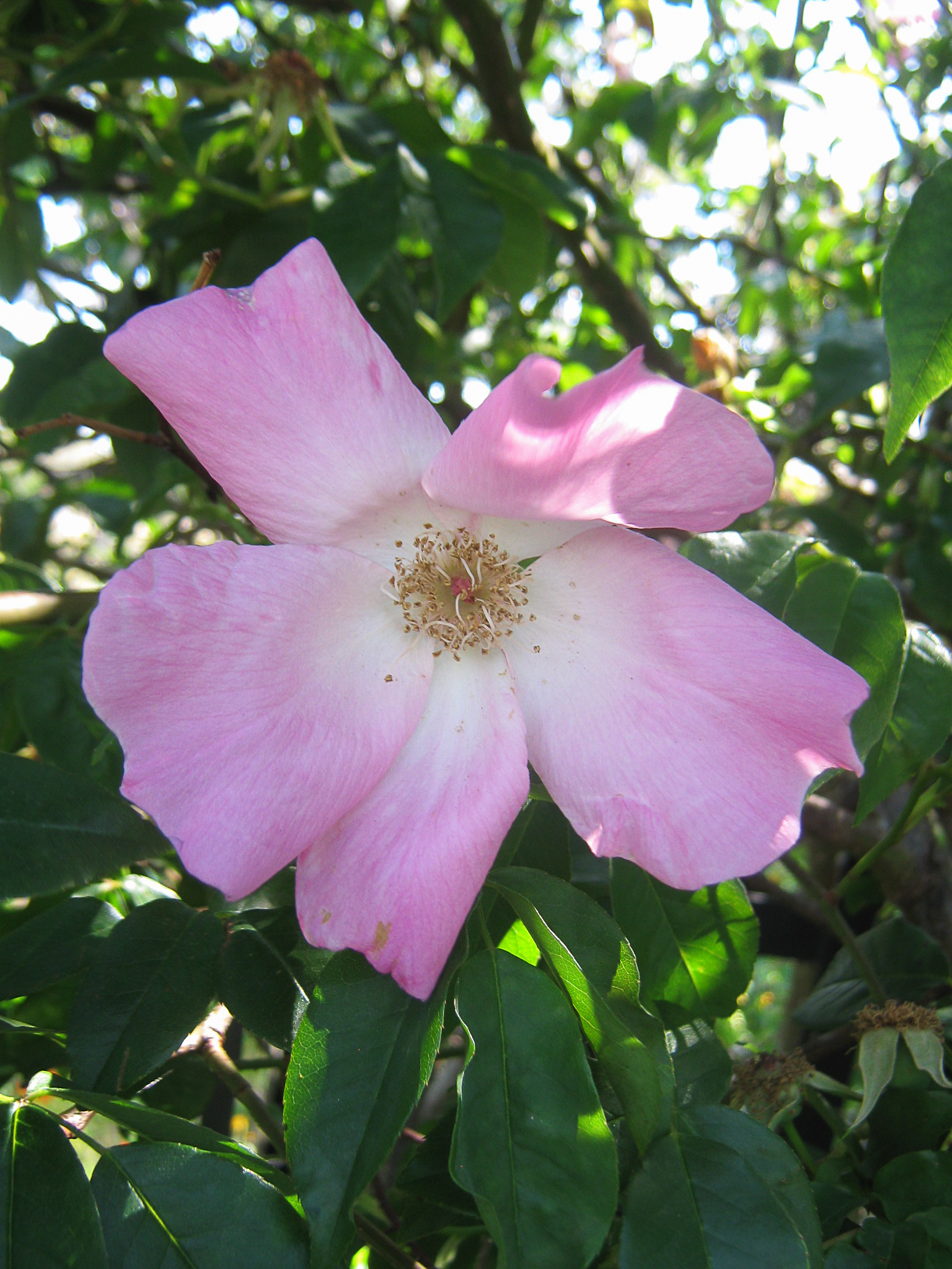 Rose 'Harbinger', Hybrid Gigantea by Alister Clark 1923; Photographed in the Alister Clark Memorial Rose Garden, Bulla, Victoria